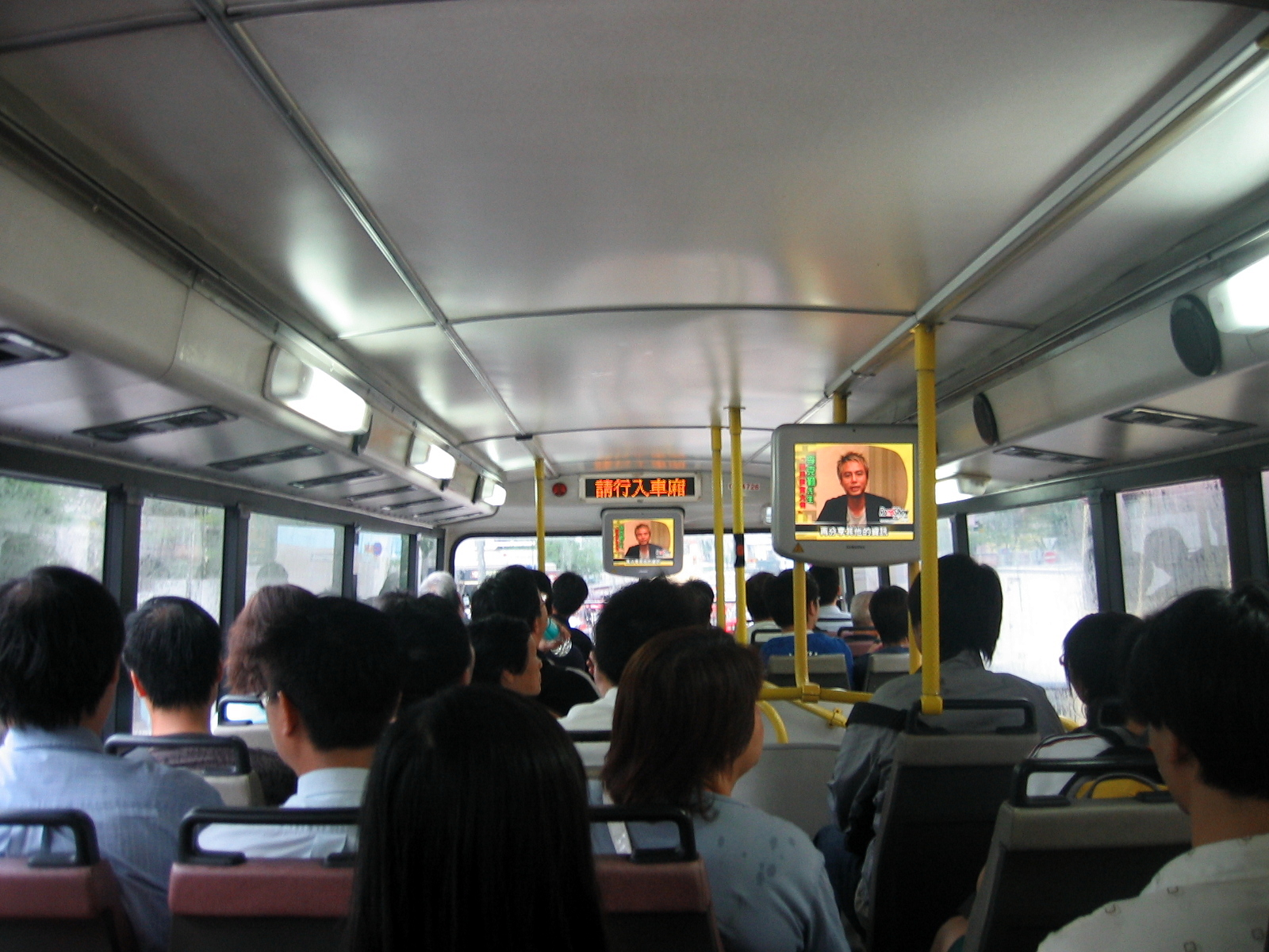 Dennis Dragon Air-Con Bus interior